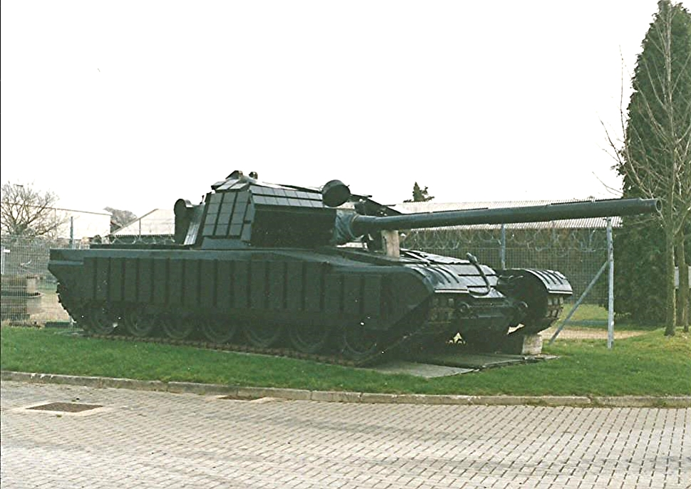 UK - I think this is the Vickers Main Battle Tank Mk.VII private venture prototype with a 120mm L11A5 gun and Chobham Armour; at the Bovington Tank Museum, Dorset, March 1998.